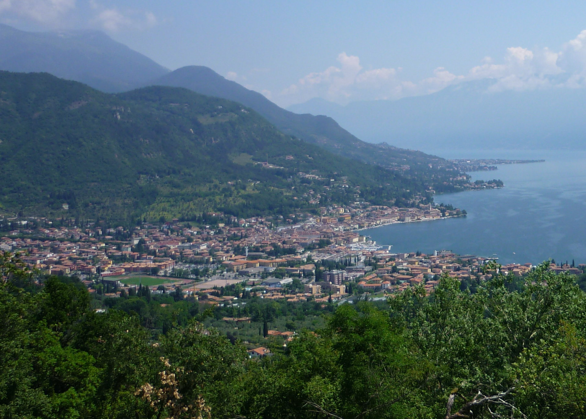 panorama of Salò (Garda lake)